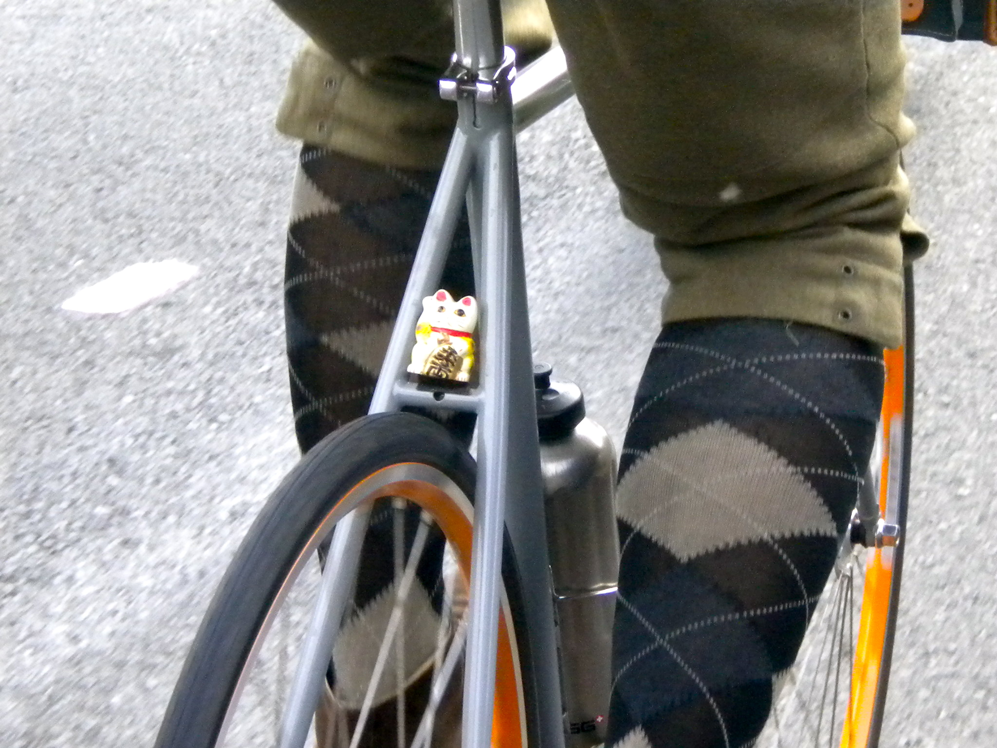 Tweed, Moxie, and Mustache Ride